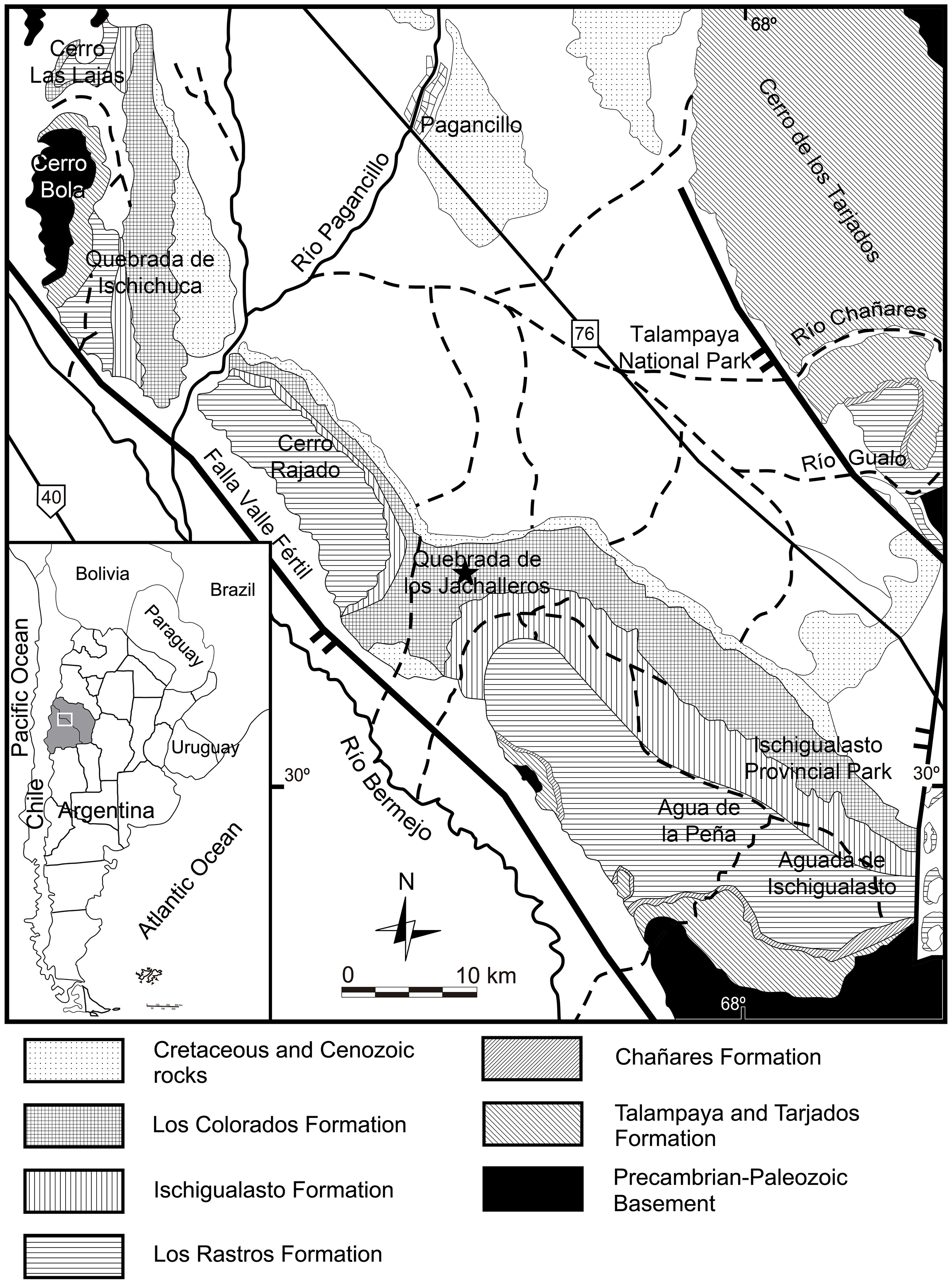 Geologic map of the Ischigualasto-Villa Unión Basin - detail Formations: Los Colorados Formation Ischigualasto Formation Los Rastros Formation Chañares Formation Tarjados Formation Talampaya Formation